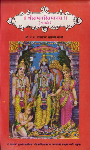 Paramhansa Parivrajakacharya Shri Pradnyanananda Saraswati Swami translated Shri Ramacharitamanasa in Marathi which was originally written by Goswami Tulasidasa.